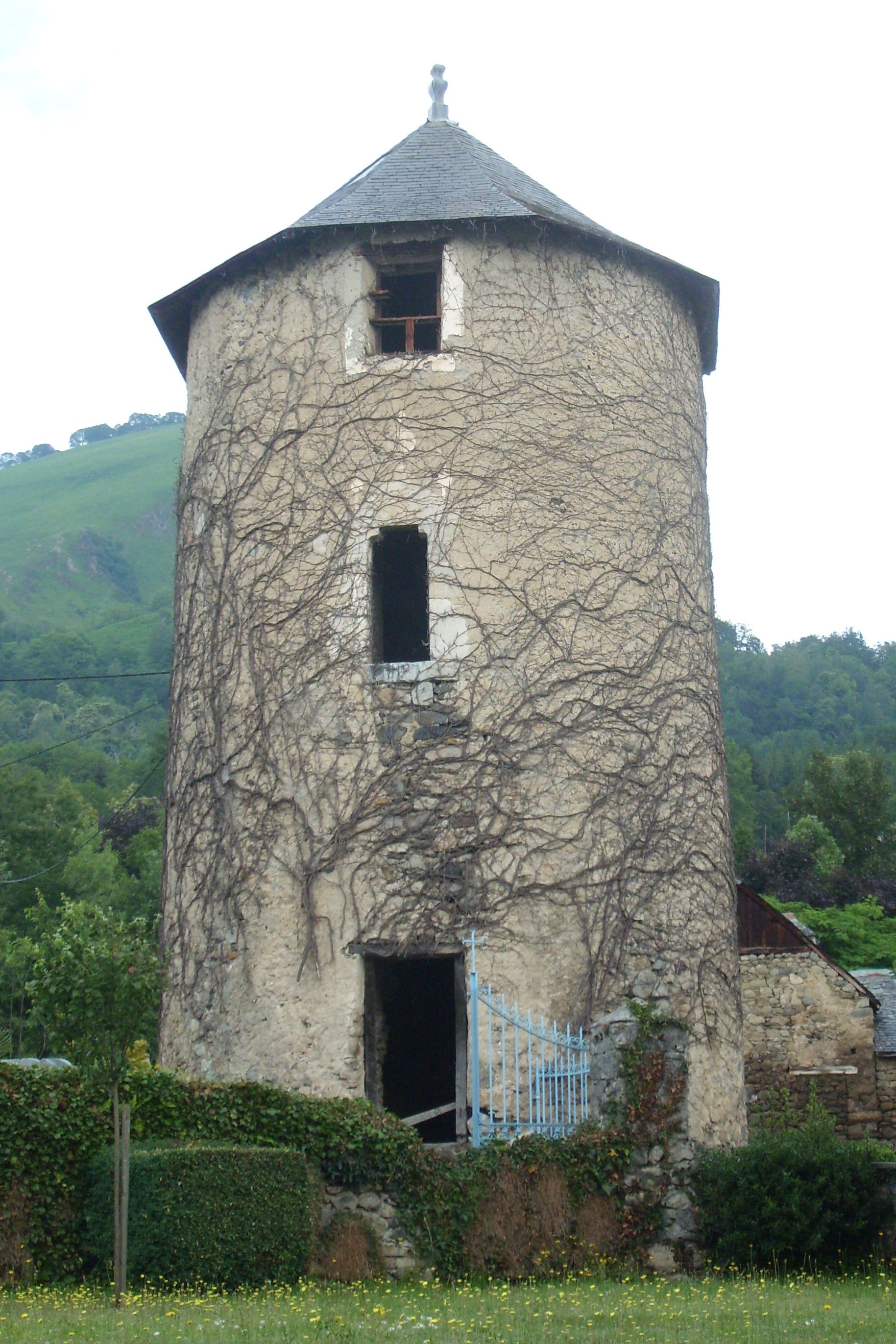 Tower in Arras en Lavedan, France